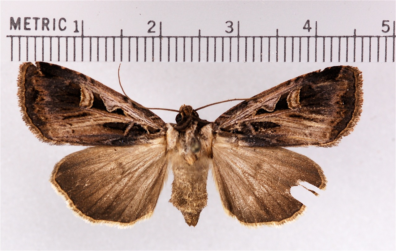 Subgothic Dart (Felita subgothica)